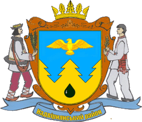 Герб Надвірнянського району